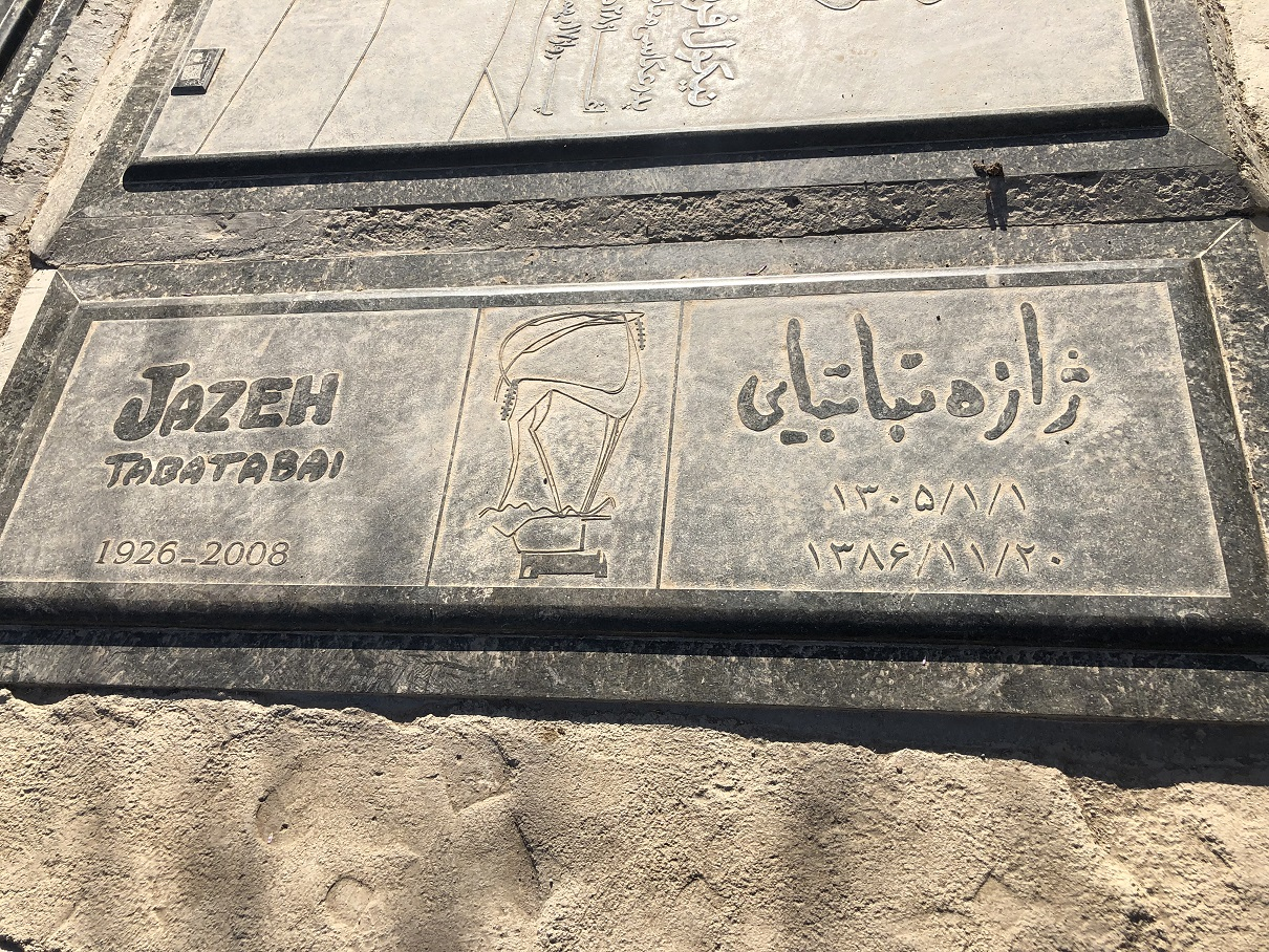 Beheshte Zahra Cemetery